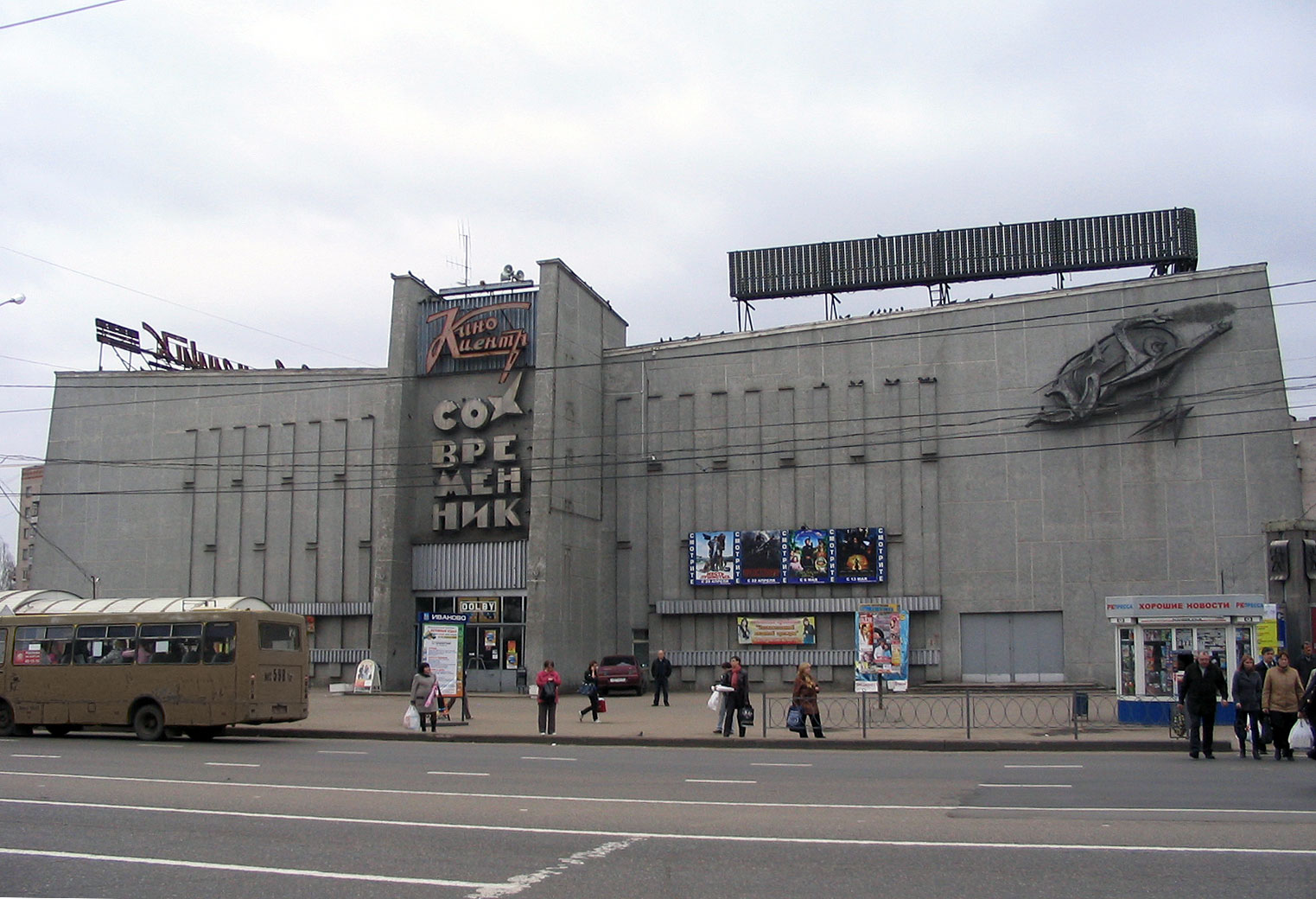 Ivanovo cinema "Sovremennik"